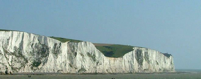 A view of the White Cliffs of Dover, taken on 7 September 2004.